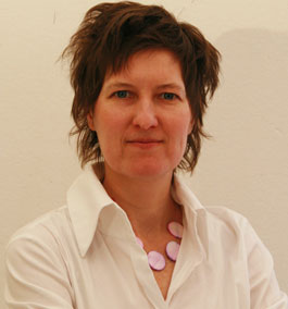 Portrait of Magdalena Frey